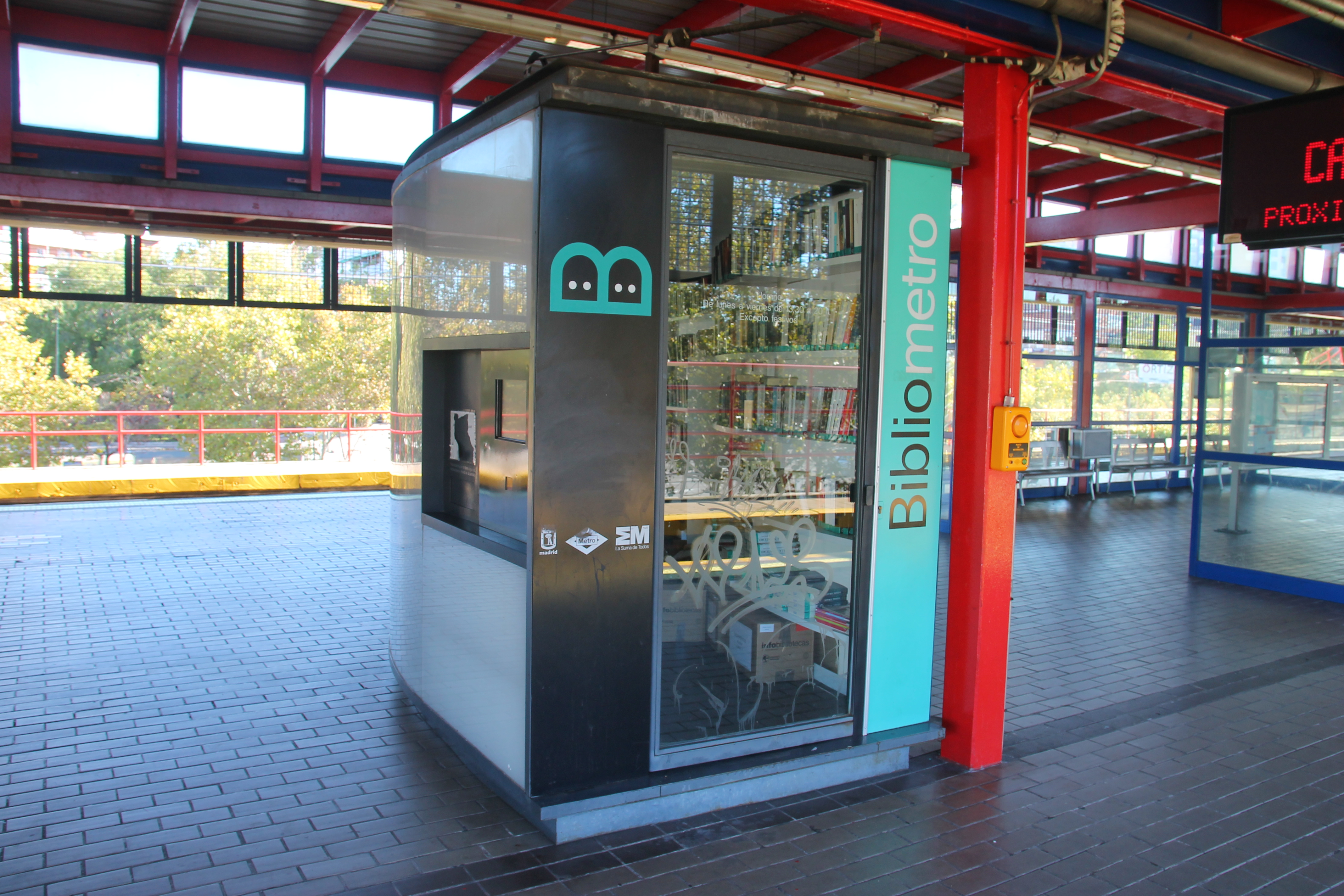 Estación de Aluche